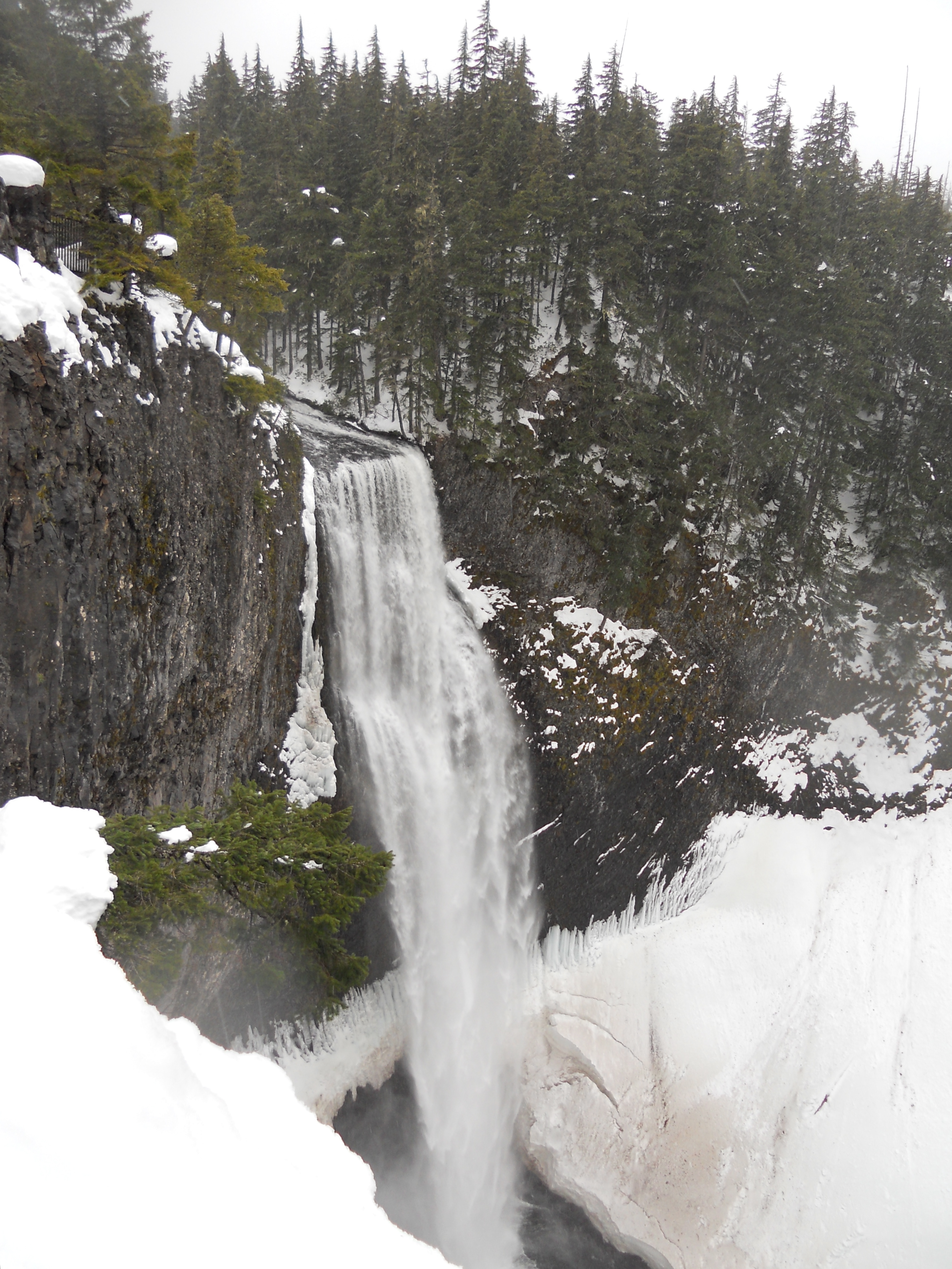 Salt Creek Falls in the Willamette National Forest in Lane County, Oregon, United States. It is 286 feet (87 m) high.